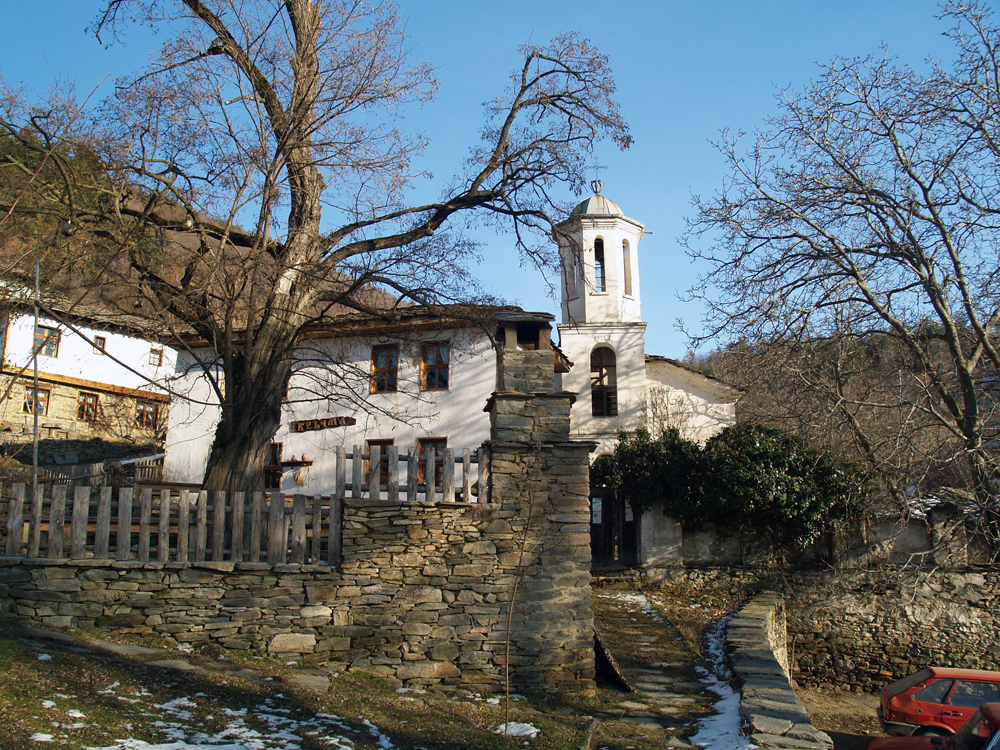 Church and old School (now a restaurant) of Leshten Bulgaria